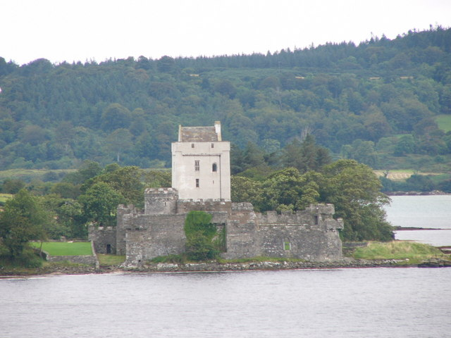 Doe Castle